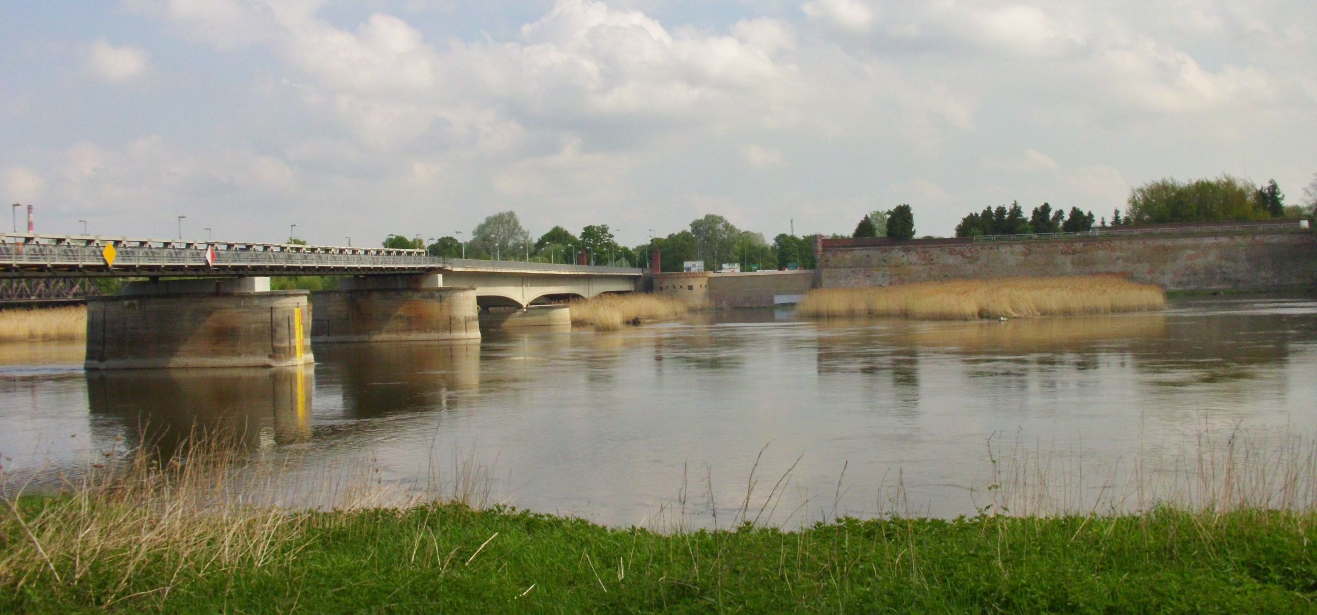 Kostrzyn - View from the Oderinsel across the Oder River to the road bridge (D - B1 / PL 22) and Old Town Kuestrin - Bastion König